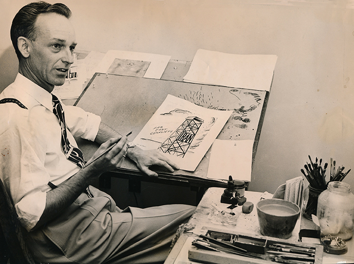 Editorial cartoonist, Arthur Bimrose, producing content for The Oregonian in the mid-1950s on turmoil in Iran.